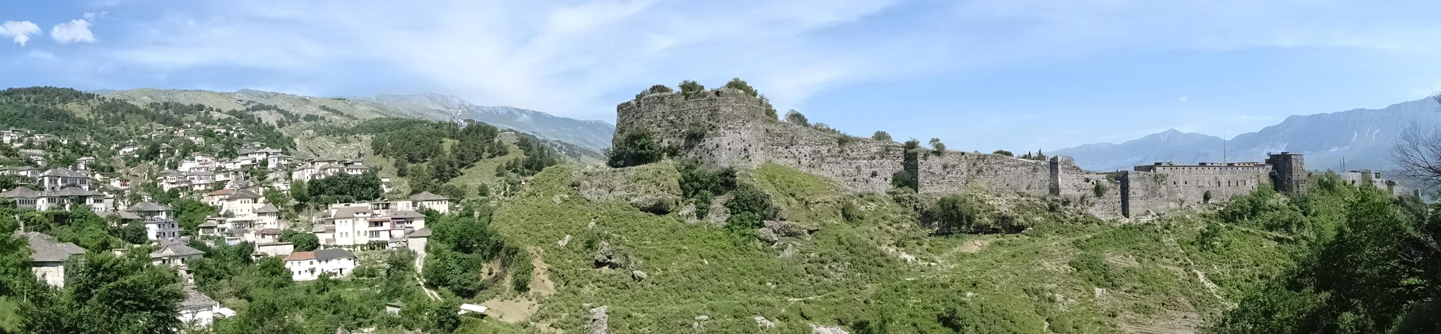 Photos by Adam Jones